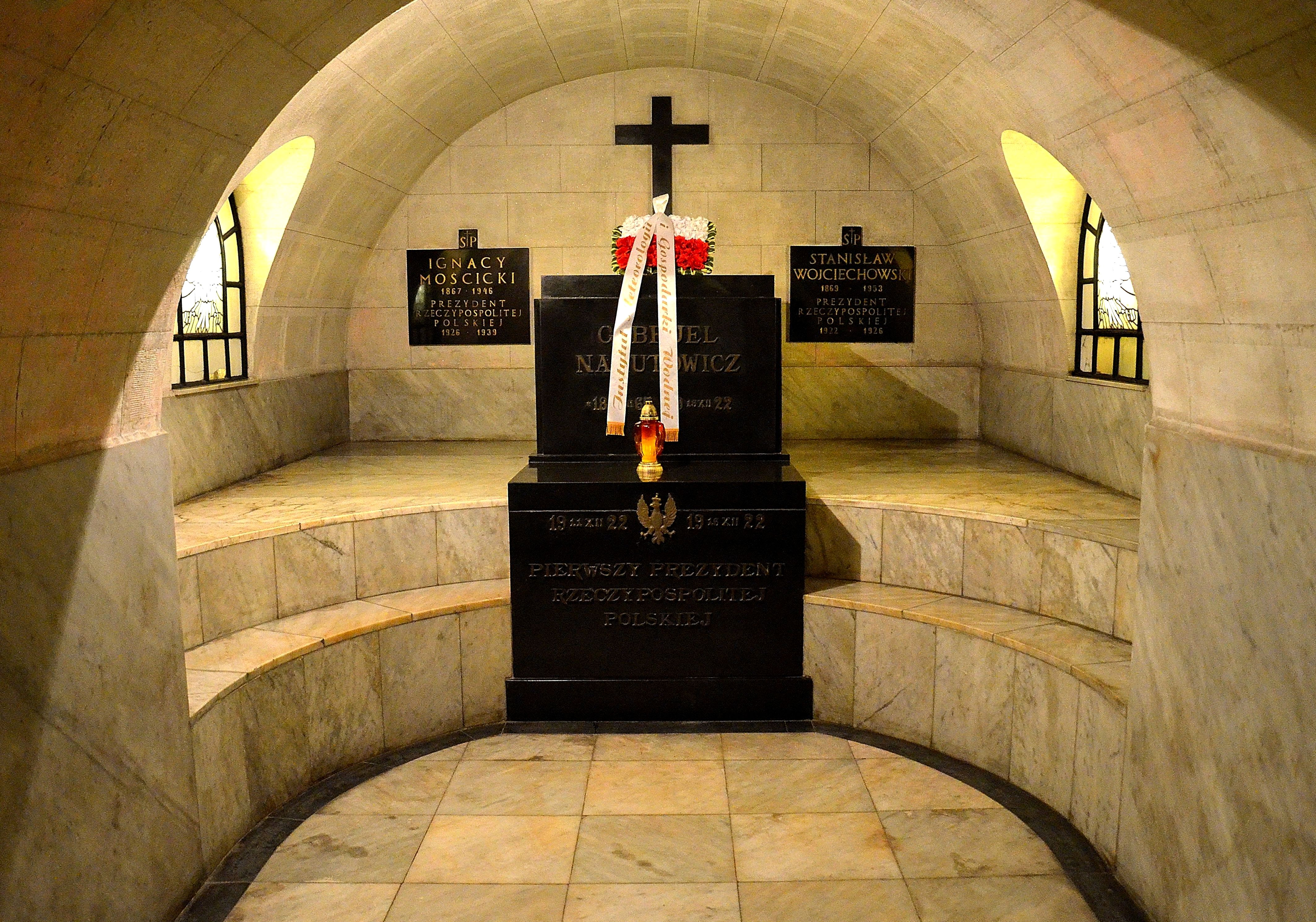 Tomb of Gabriel Narutowicz at St. John's Archcathedral in Warsaw